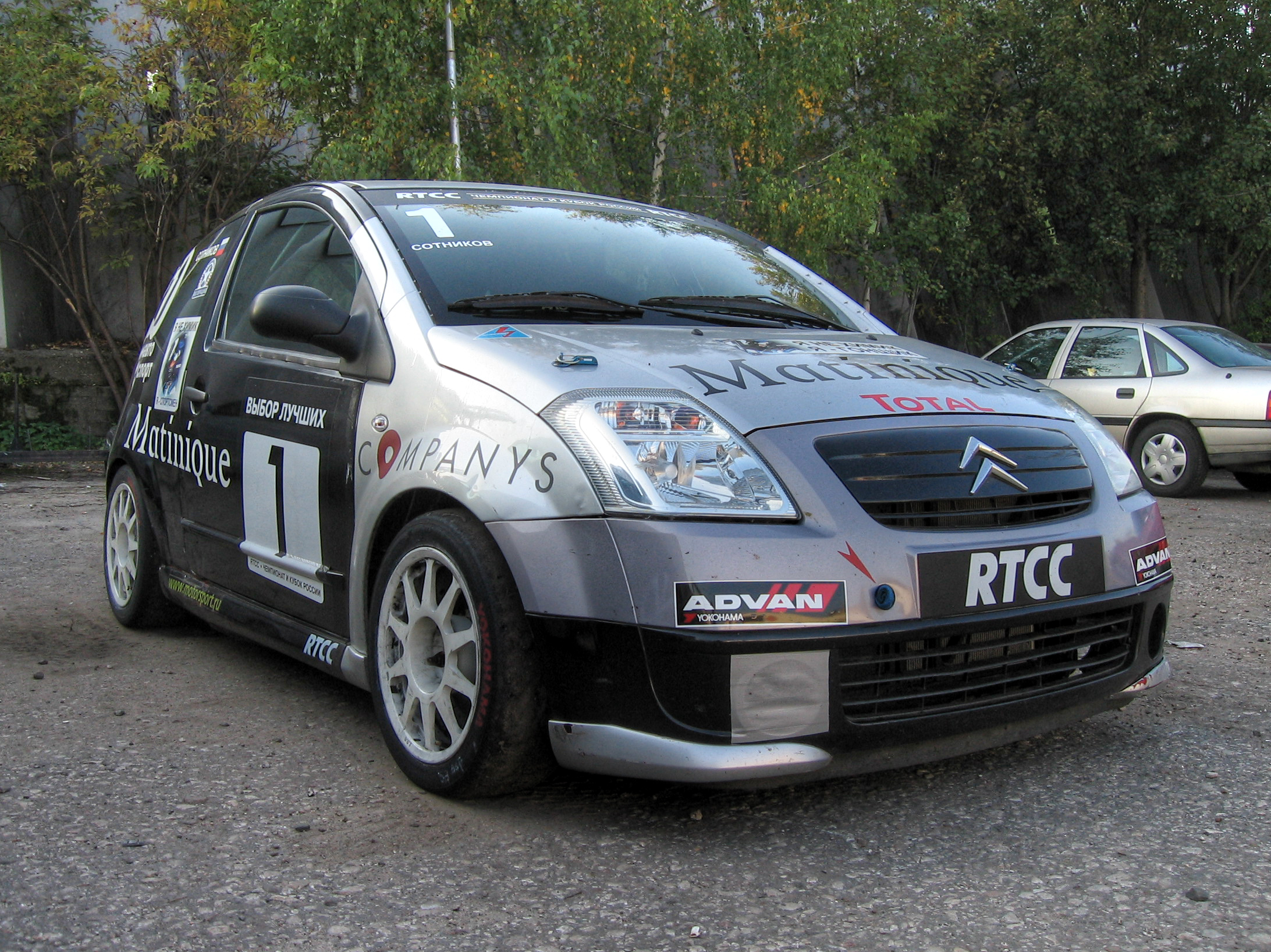 citroen c2 moscow ring touring racing